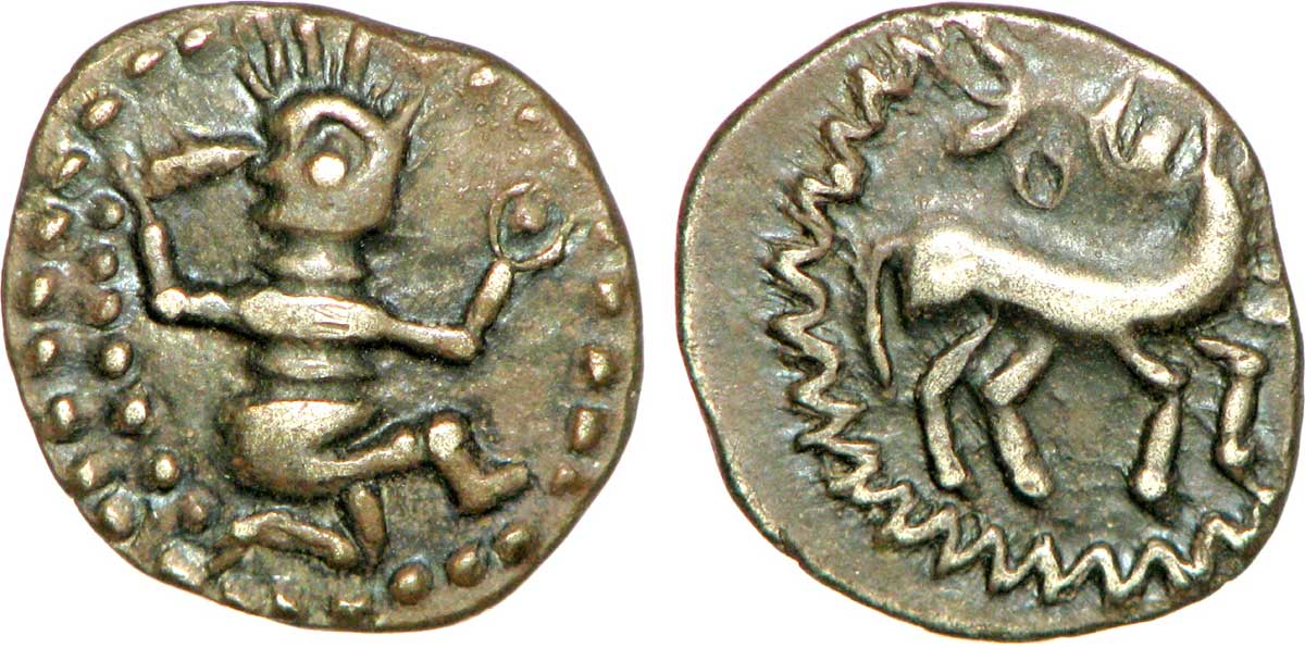 Denier d'argent “au personnage dansant” Date : c. 80-50 AC. Description avers : Personnage dansant à droite, la tête retournée, tenant un torque d’une main et un glaive de l’autre ; une ligne perlée entre la jambe et le bras ; grènetis . Description revers : Cheval à droite, retournant la tête en arrière ; grènetis ou listel chevronné .